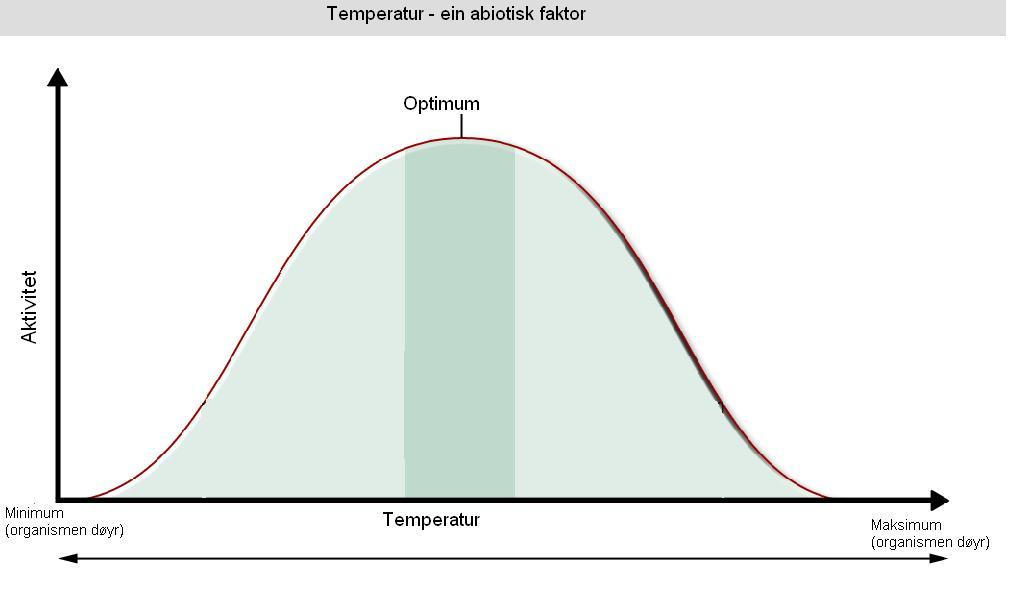 A simpler version of in Norwegian (nynorsk)